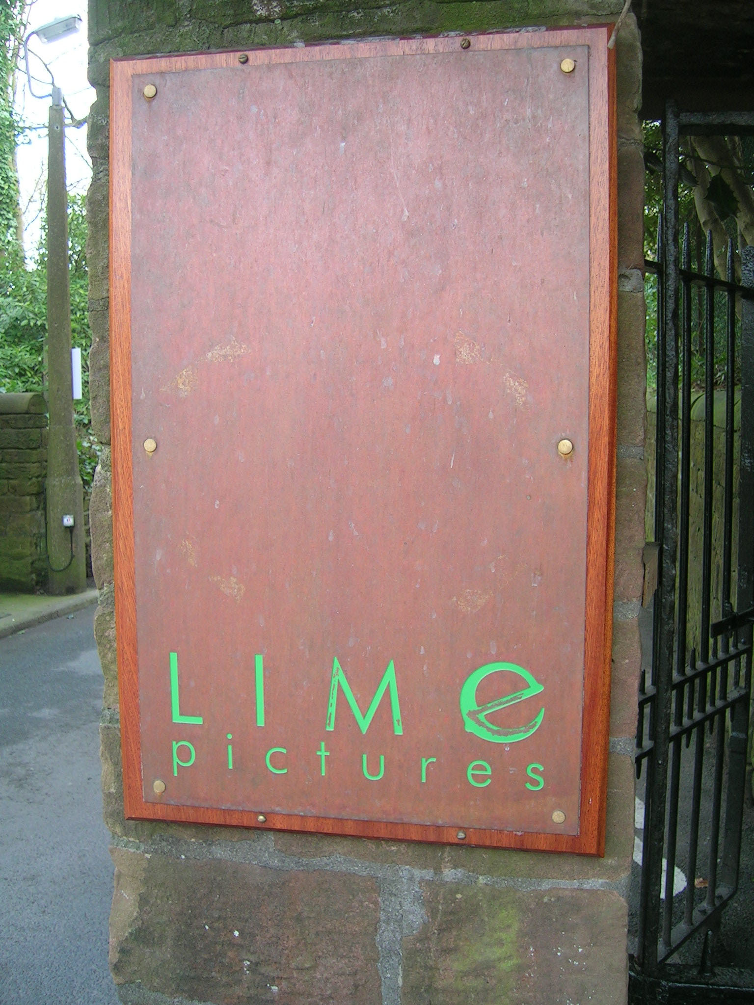 Lime Pictures (formerly Mersey TV) in the Childwall district of Liverpool. A production company and studio. The shop parade from the flagship soap for Channel 4 Brookside was filmed here (Hollyoaks is currently filmed here.